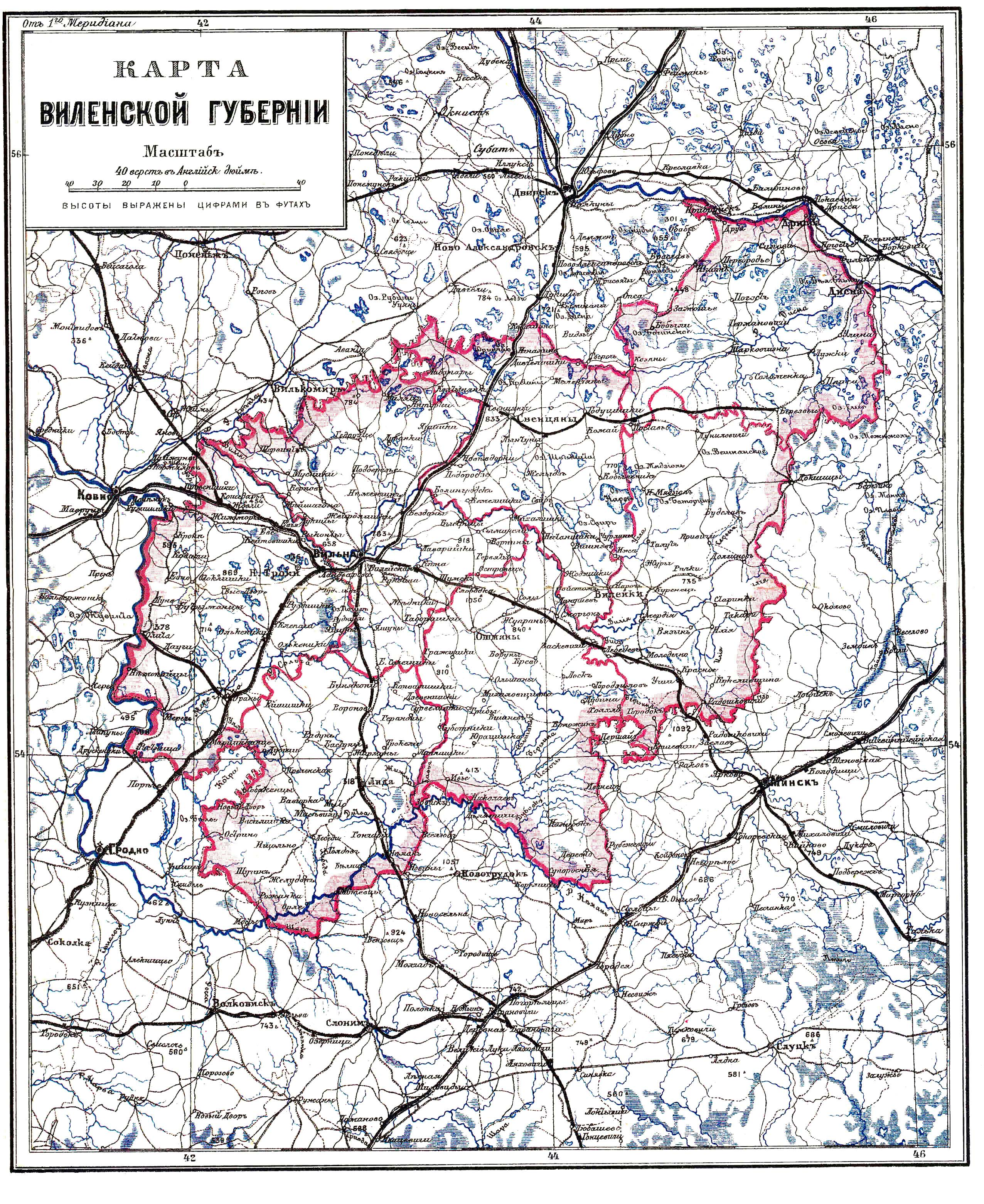 Vilna (Vilnius) Governorate map from Brokhaus and Efron Encyclopedic Dictionary